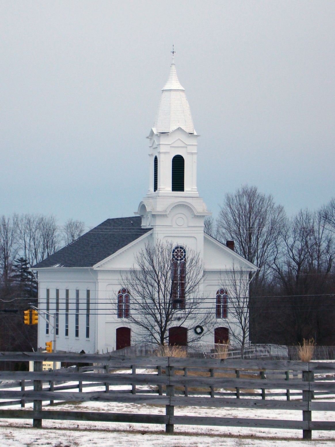 Fairmount Historic District, Roughly, NJ 517 from the Morris-Hunterdon Co. line to NJ 512 and NJ 517 fron Fox Hill to Wildwood Rds. Califon